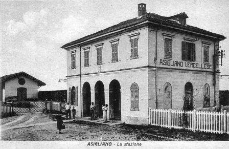 Asigliano Vercellese train station